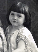 Peggy & Lassie Lou Ahern (c. 1921-1922)